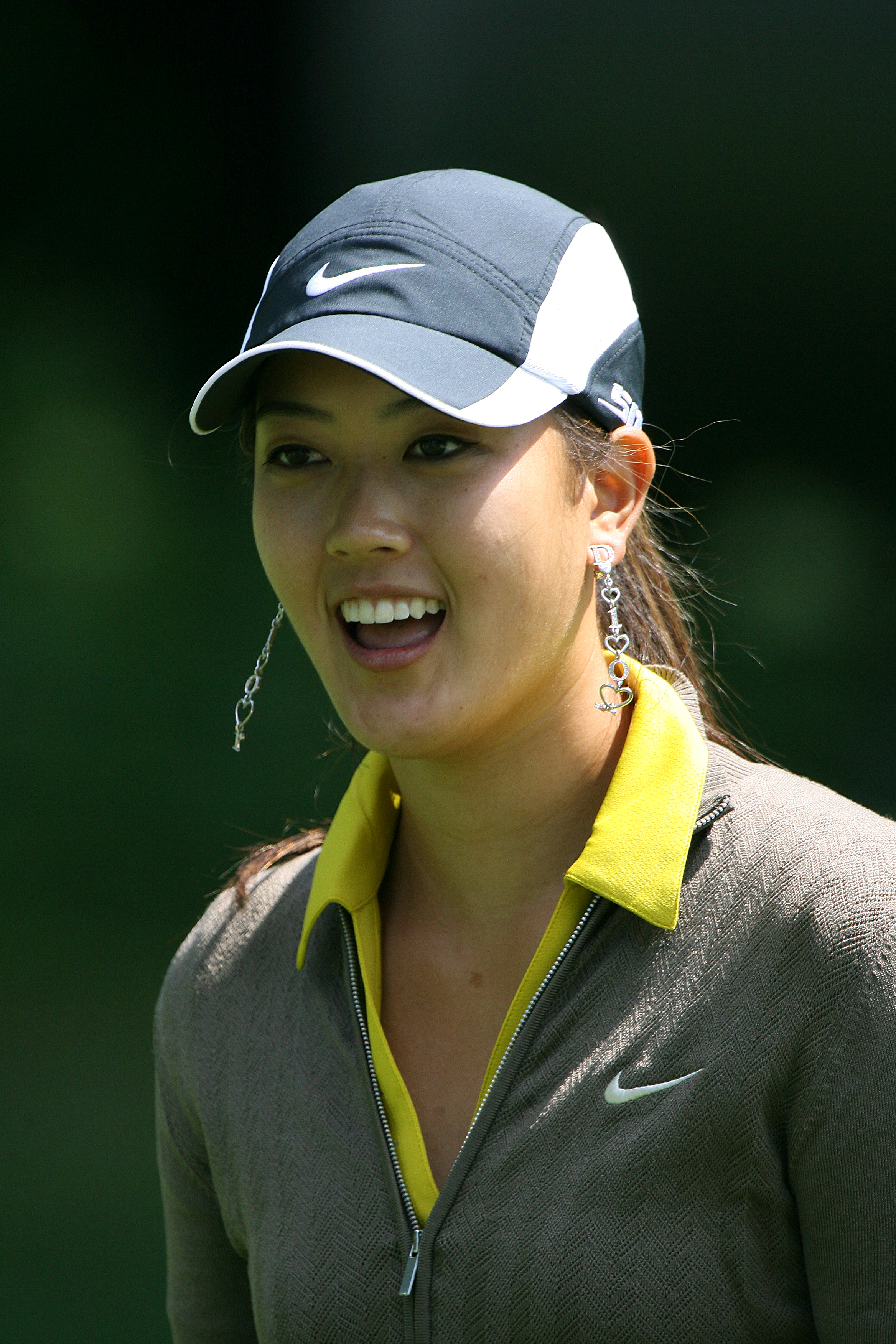 Michelle Wie (USA) the day before 2007 McDonald's LPGA Championship Presented by Coca-Cola